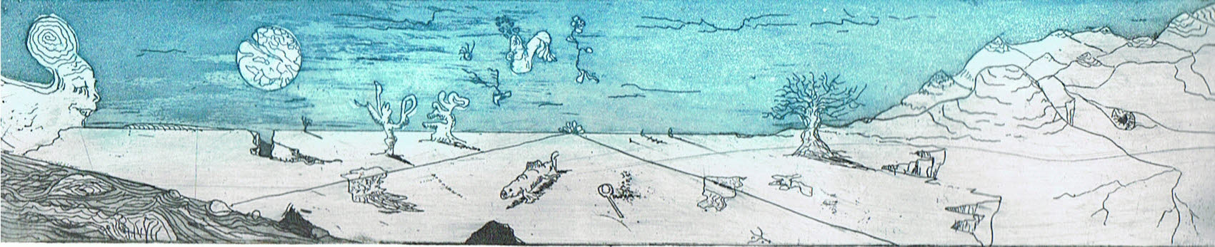 Etching number 2/5 Landscape from Willem den Broeder